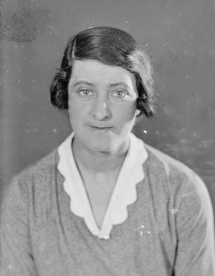 Museum staff member Joyce Allan, Sydney, ca. 1930s